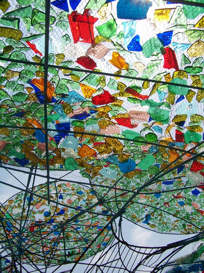 L'Arbres à palabres, Fréderic Keiff on WikiAfrica Art: an artwork for Wikipedia.